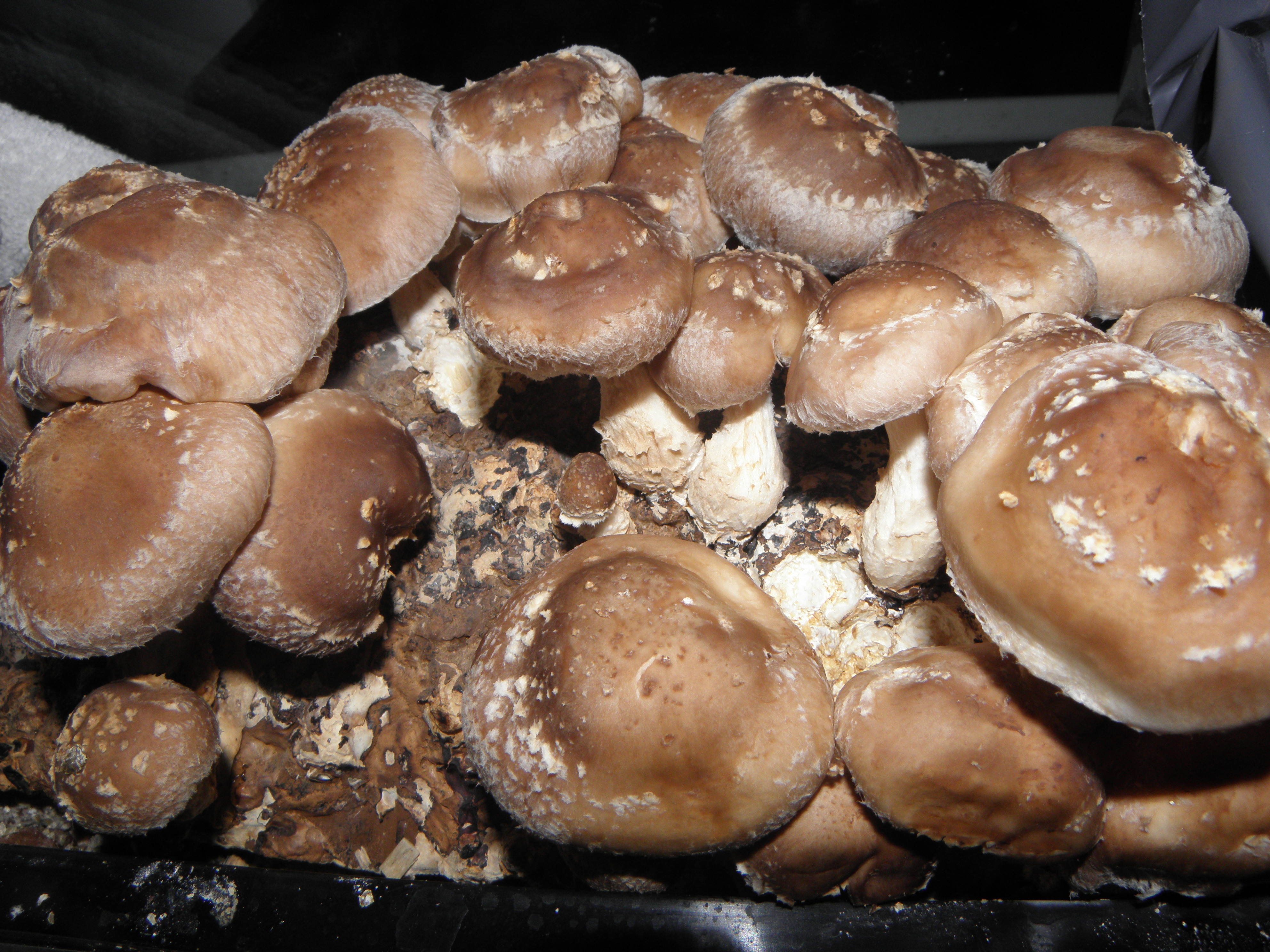 ShiitakeLatina: Lentinula edodes